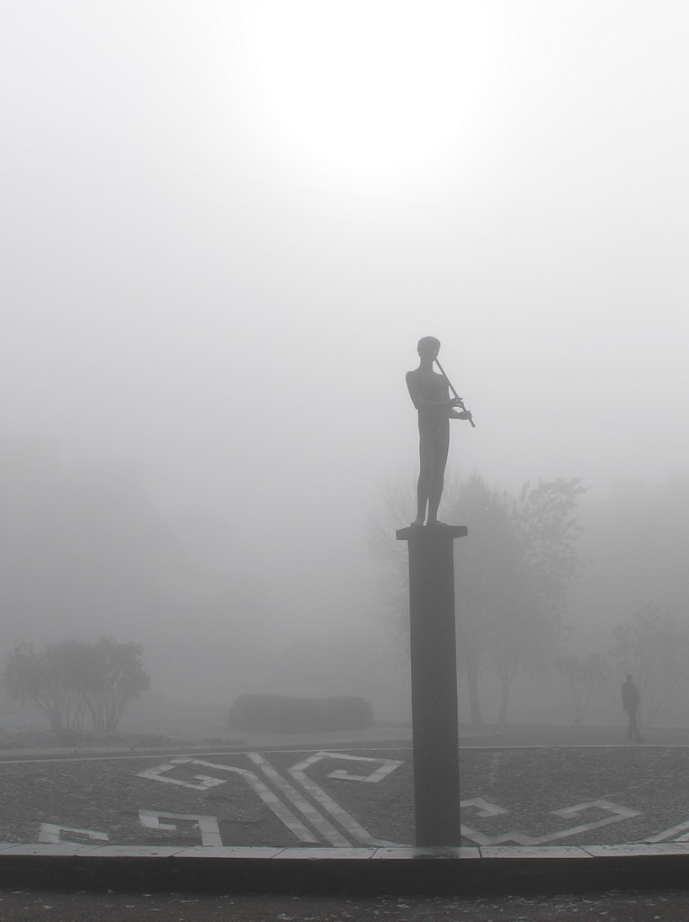 Quray player monument near the Cinema buildingTürkçe: Sinema binasının yakınındaki Quray oyuncu anıtıБашҡортса: Кинотеатр йорто янында ҡурайсы һәйкәлеТатарча/tatarça: Кинотеатр бинасы янында курайчы һәйкәле